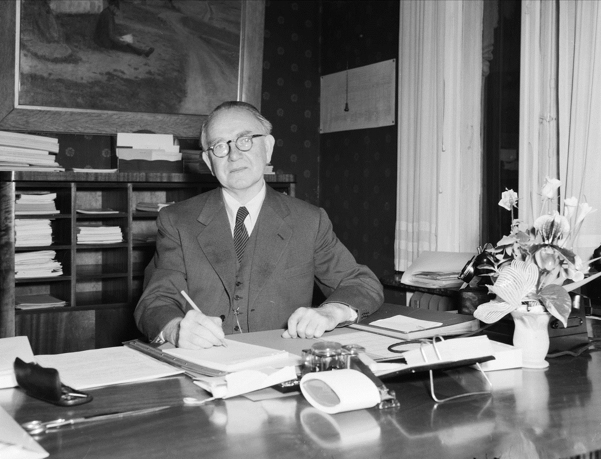 Birger Martin Bergersen (25 July 1891 – 14 July 1977) was a Norwegian anatomist and politician for the Labour Party. He notably served as a professor (1932–1947) and rector (1938–1945) of Norges tannlegehøgskole, Norway's ambassador to Sweden (1947–1953), Norwegian Minister of Education and Church Affairs (1953–1960) and chairman of the International Whaling Commission.